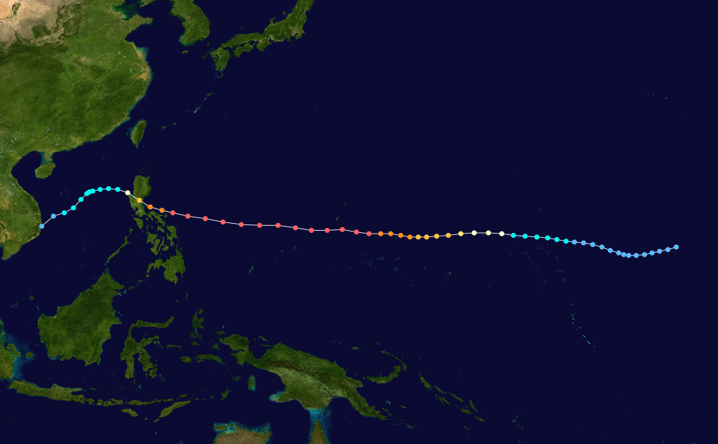 Typhoon Rita 1978 track. Uses the color scheme from the Saffir-Simpson Hurricane Scale.